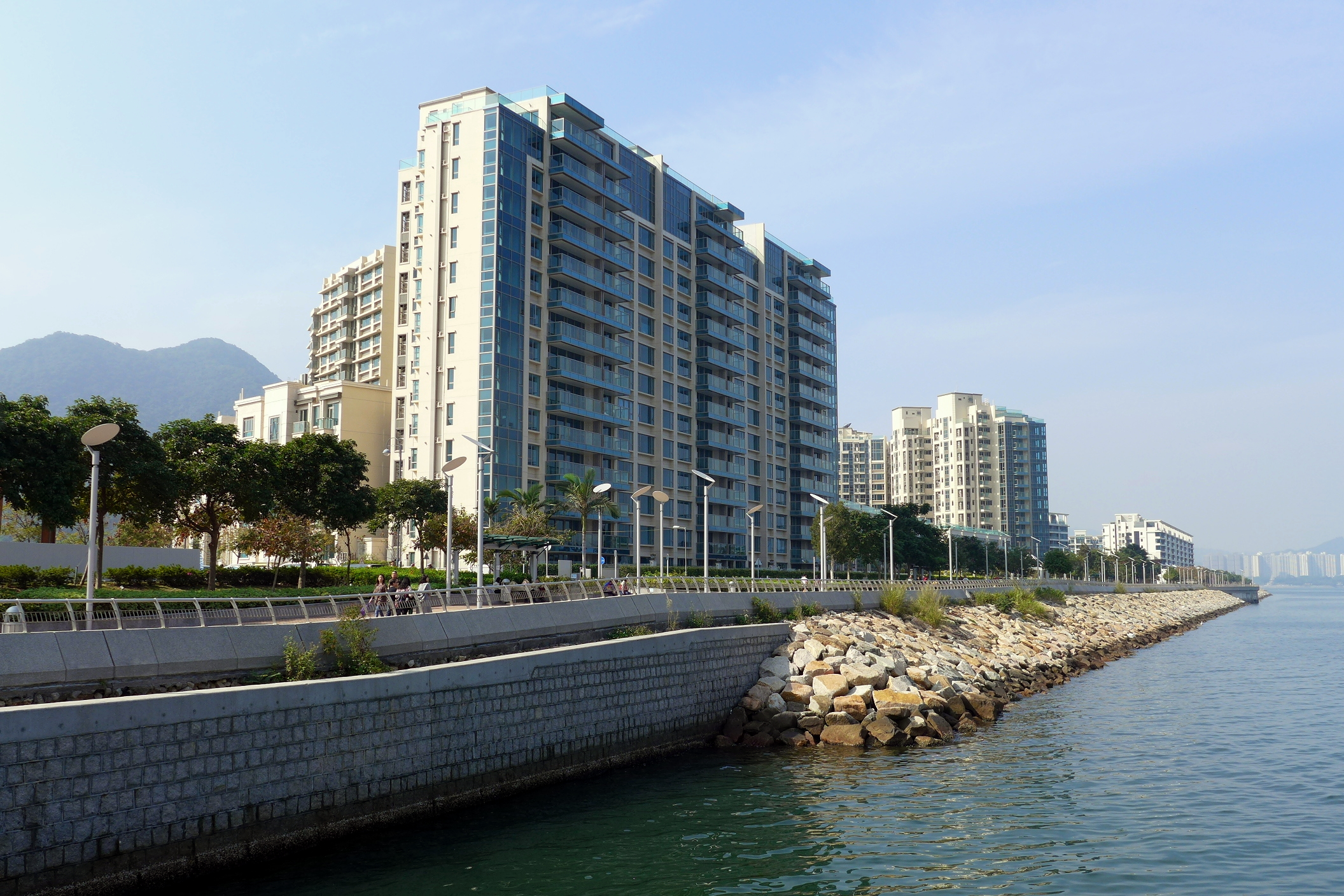 Mayfair By The Sea I&II